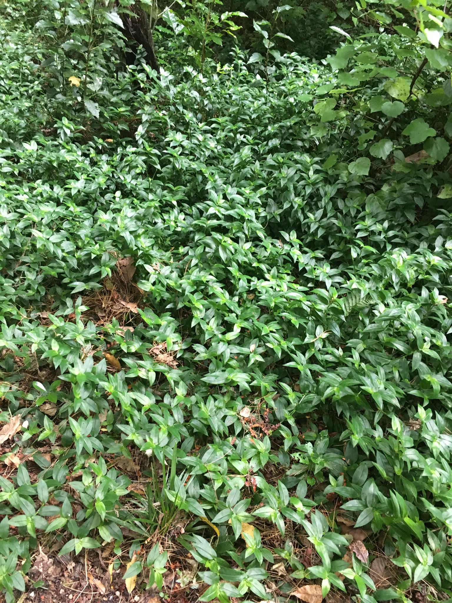 Tradescantia fluminensis (Q601079) by Tim Park (Q62777422) via iNaturalist observation at the Wellington Botanic Garden BioBlitz 2019 (Q62770398)